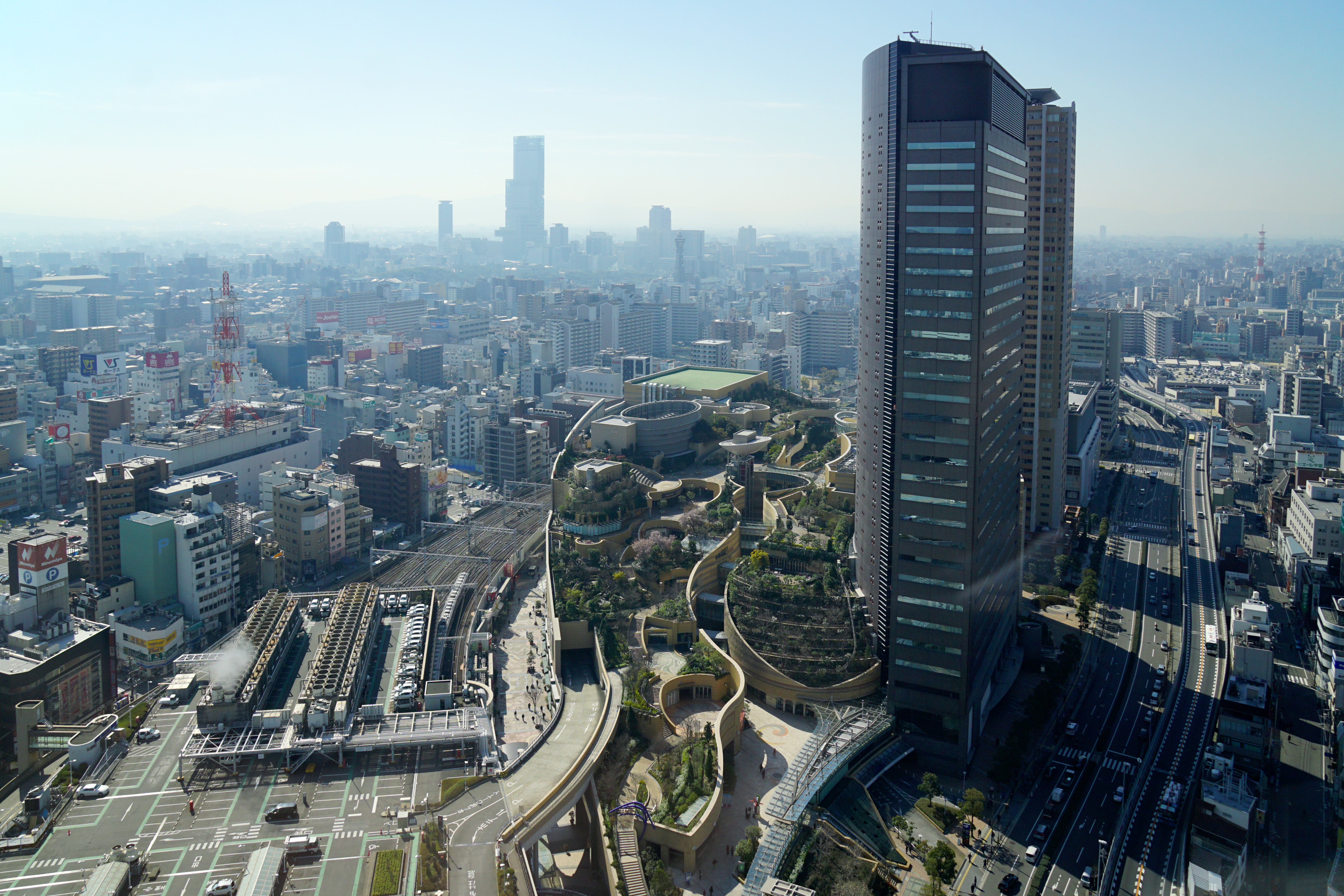 Namba Parks view from Swissôtel Nankai Osaka in Osaka, Osaka prefecture, Japan